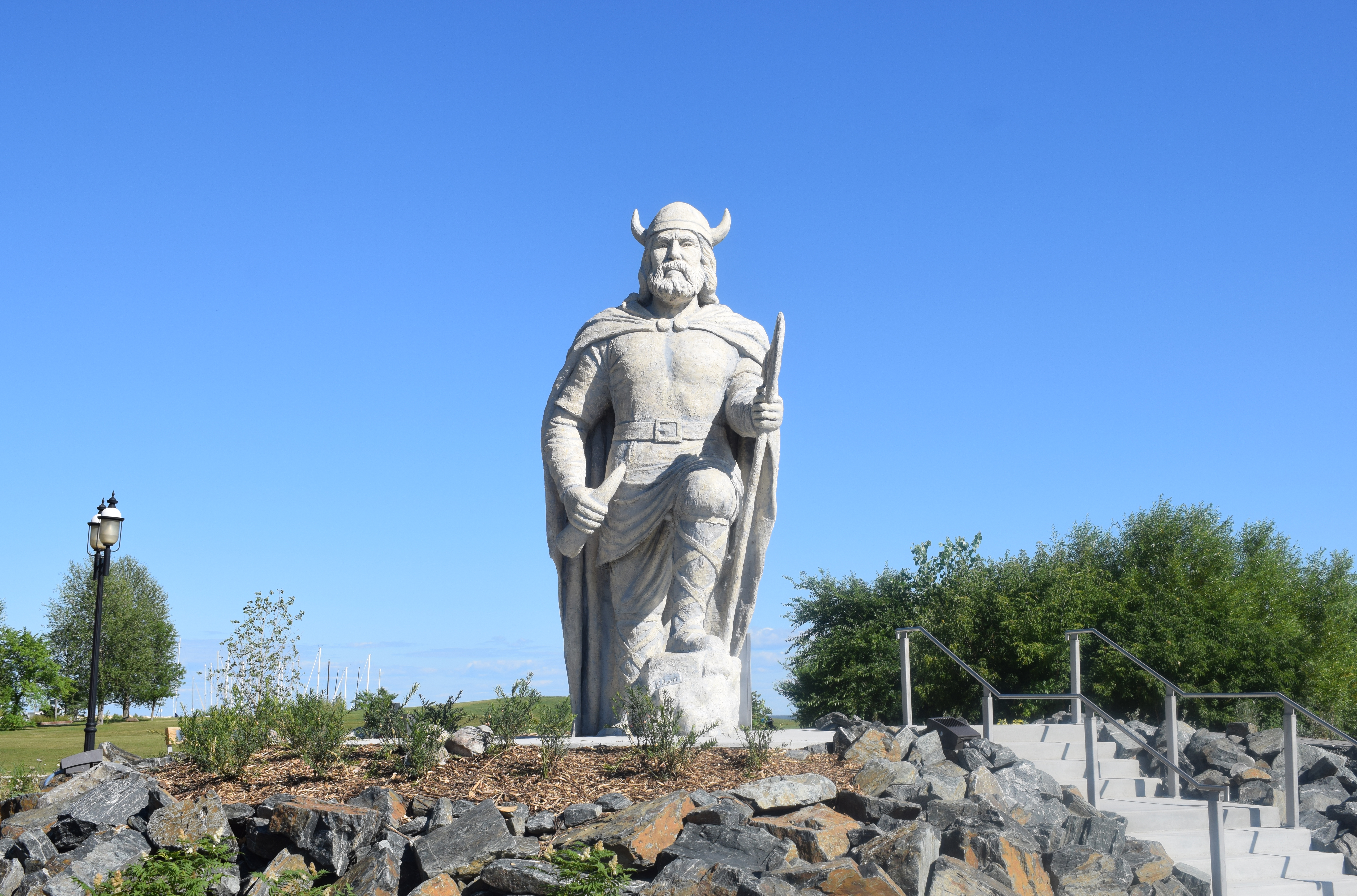 The Gimli viking statue was originally erected in 1967 by the Gimli Chamber of Commerce and unveiled then by Iceland's president. The site was then re-landscaped in 2017, Canada's 150th year.